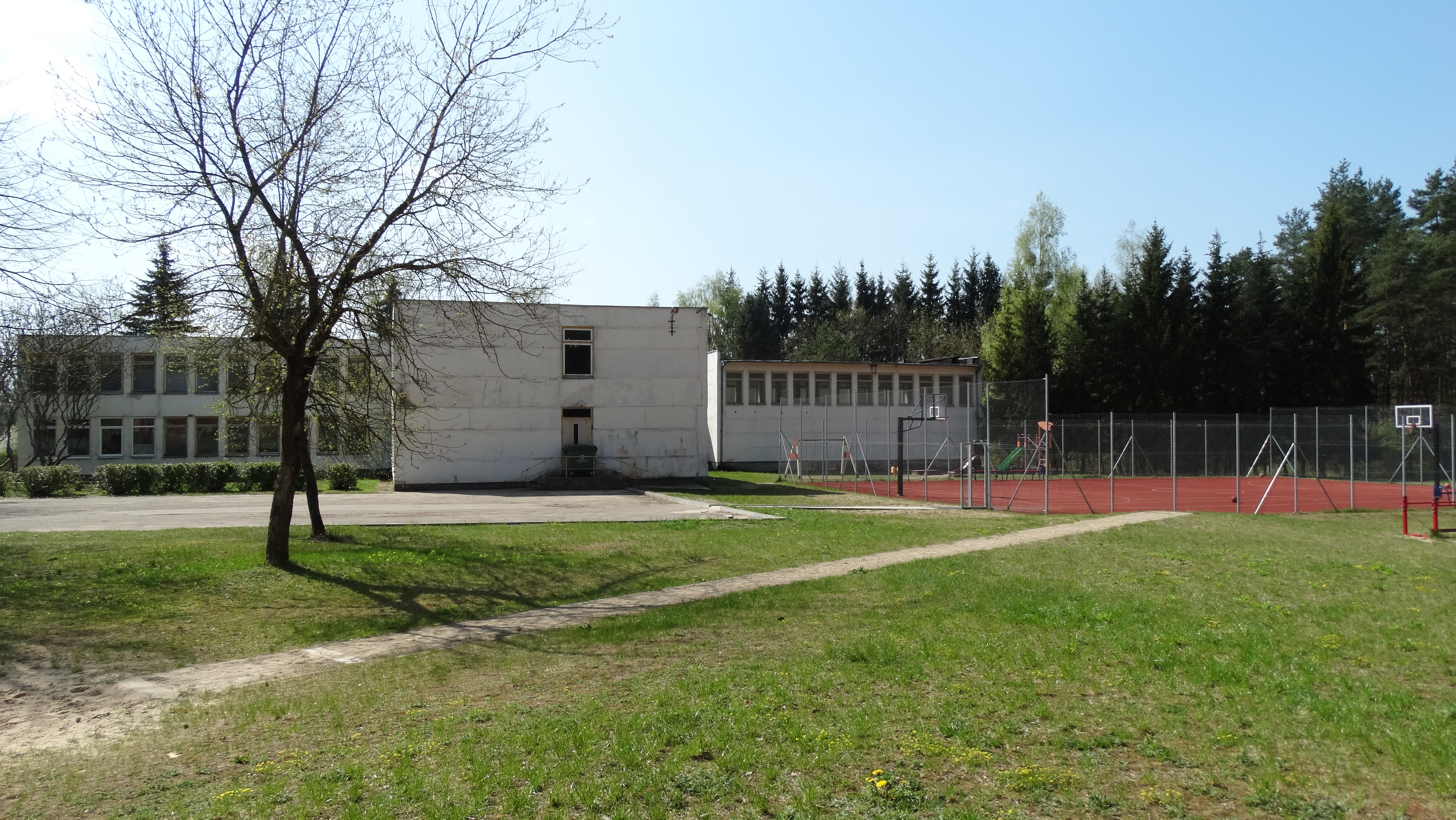 Basic school in Čiobiškis, Širvintos District, Lithuania